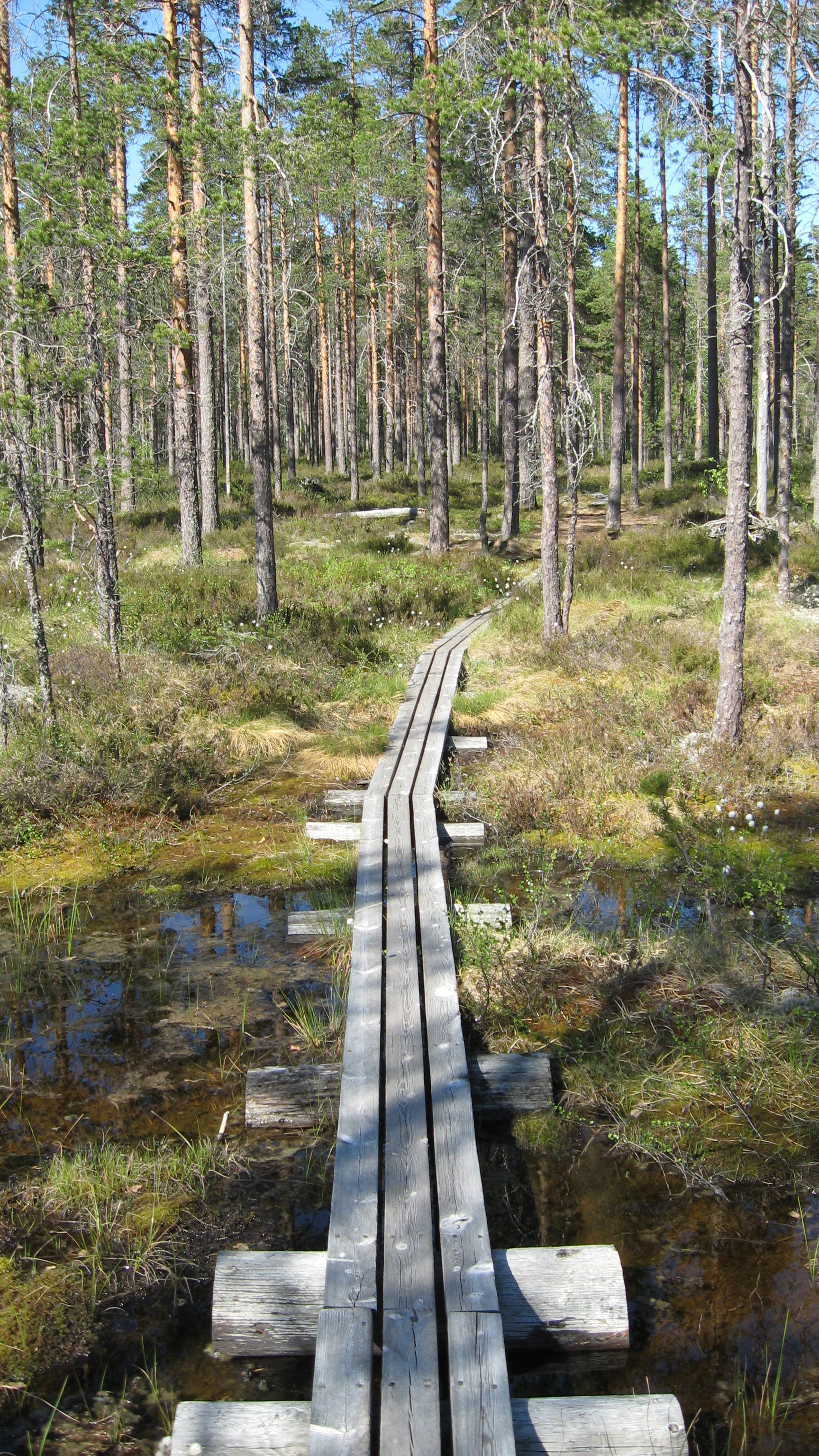 Duckboards on the bog in Lauhanvuori National Park, Isojoki, Finland.